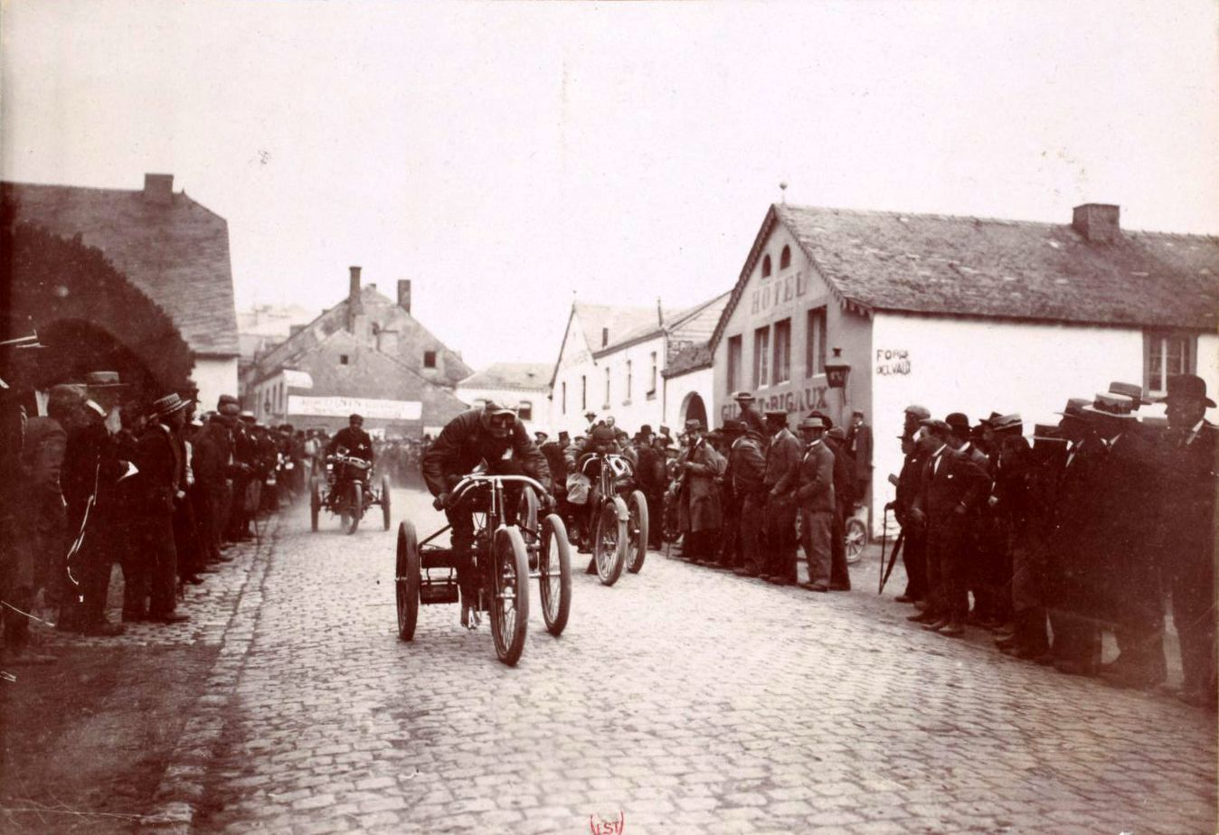 Circuit des Ardennes 1902. Tricycles